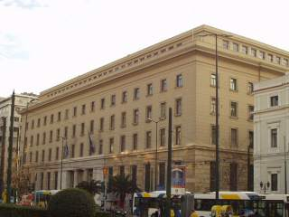 Bank of Greece in Athens, 320x240px. photographed by Optim on January 19, 2004. A larger 640x480 version with higher quality exists in my private collection. This is the main building of the Bank of Greece in Athens, Eleutheriou Venizelou Avenue, number 21. Postal code 10250. Photographed with an Olympus 2-megapixel digital camera. This image was uploaded by the photographer and is released under the terms of GFDL.